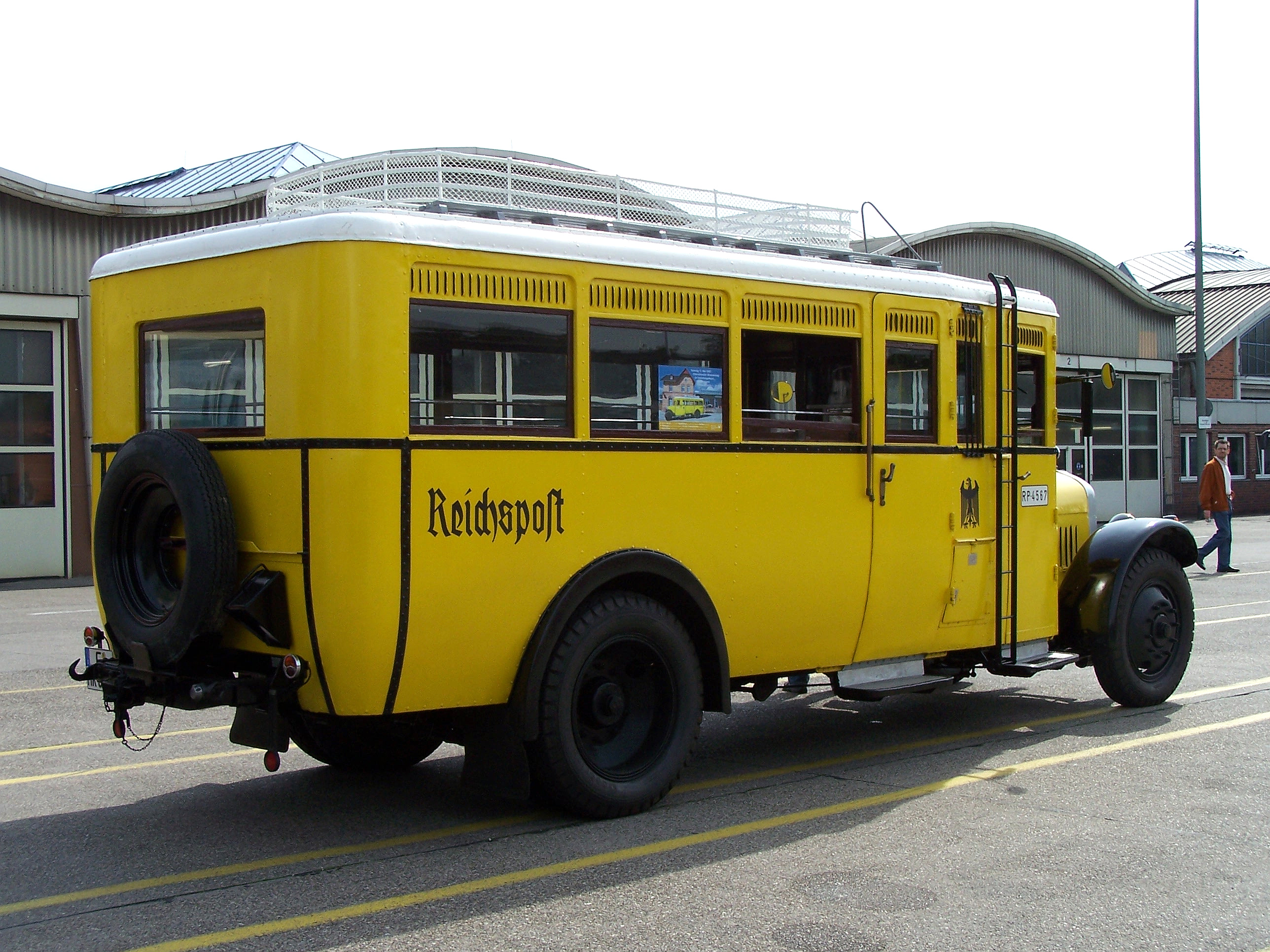 Historical post bus manufactured by DAAG in 1925 on an extra tour in Frankfurt am Main--Rebstock